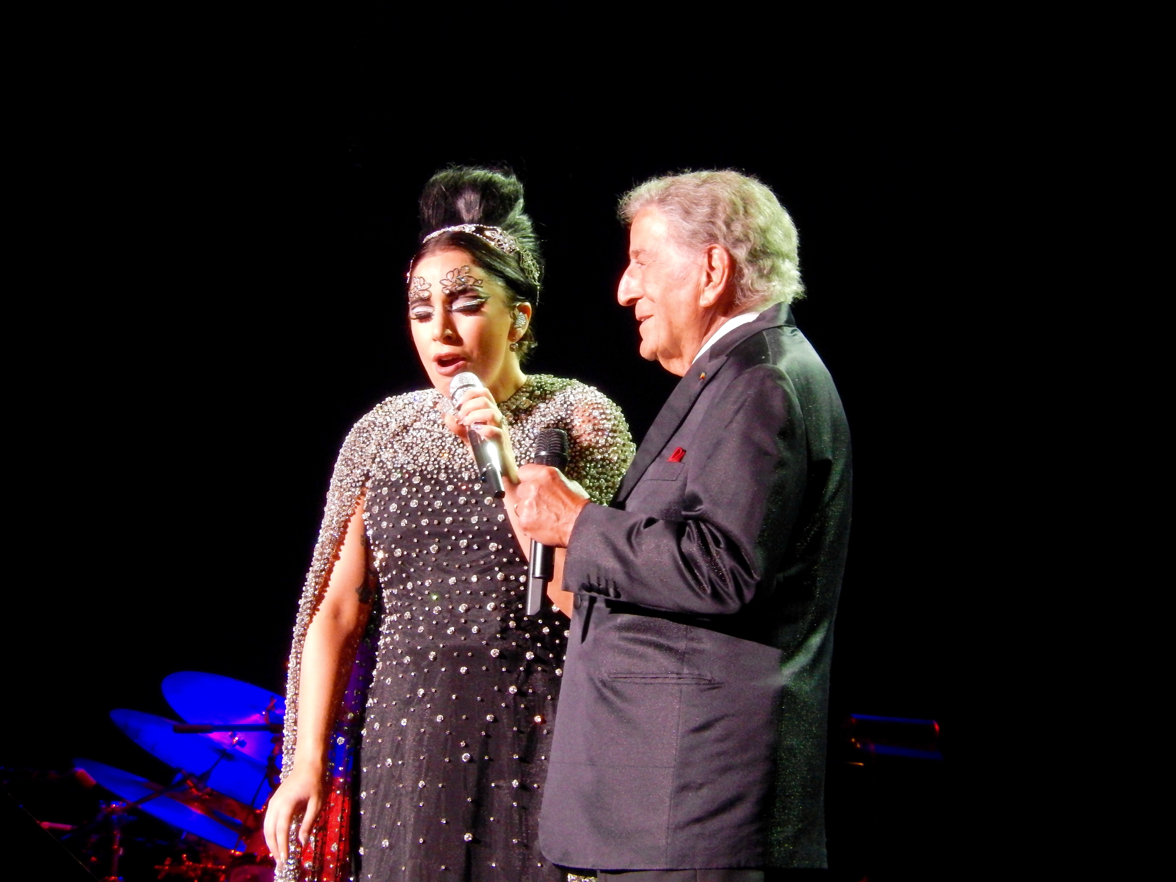 Cheek to Cheek Concert. The Axis. Planet Hollywood. Las Vegas. April 2015. Gaga and Bennett performing at Los Angeles for the Cheek to Cheek Tour